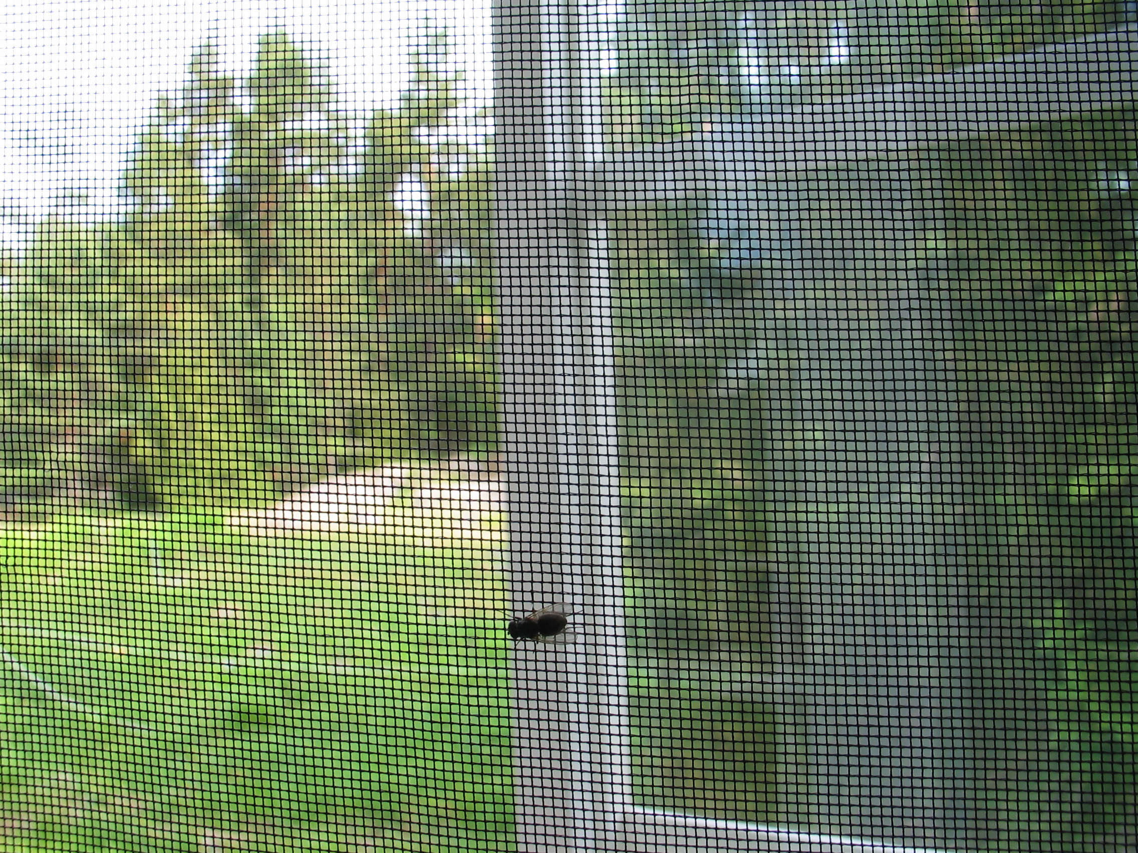 A fly on a mosquito net, photo taken in Sweden